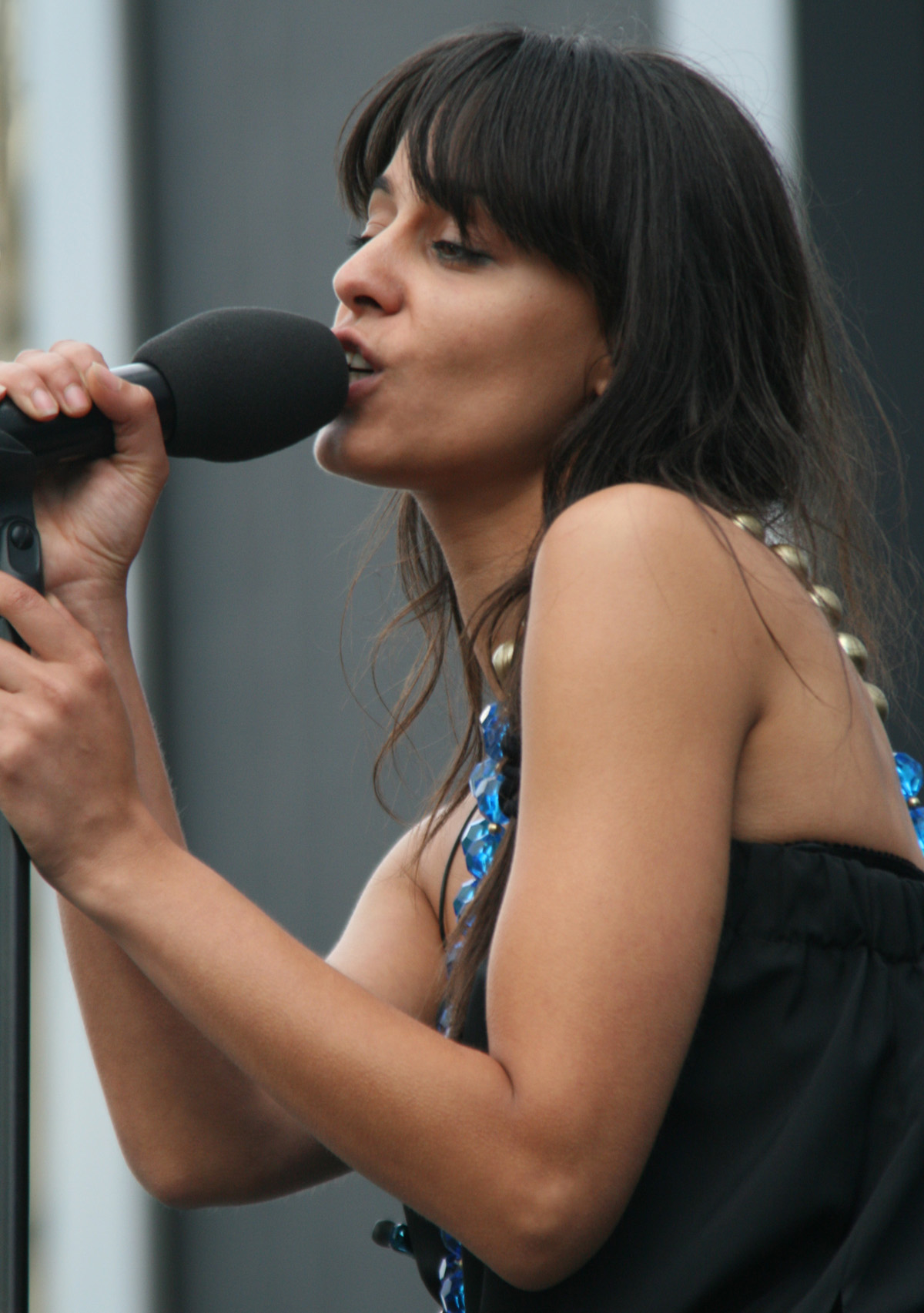 Austrian singer Madita; performance at the Jazz Festival 2008 in Vienna